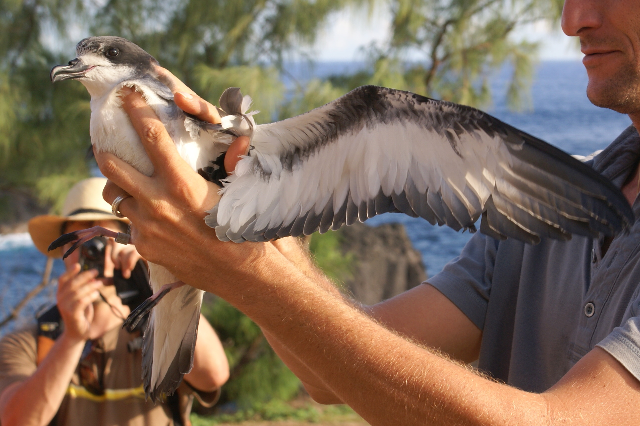 Pterodroma baraui : rescued fledgling just before being released